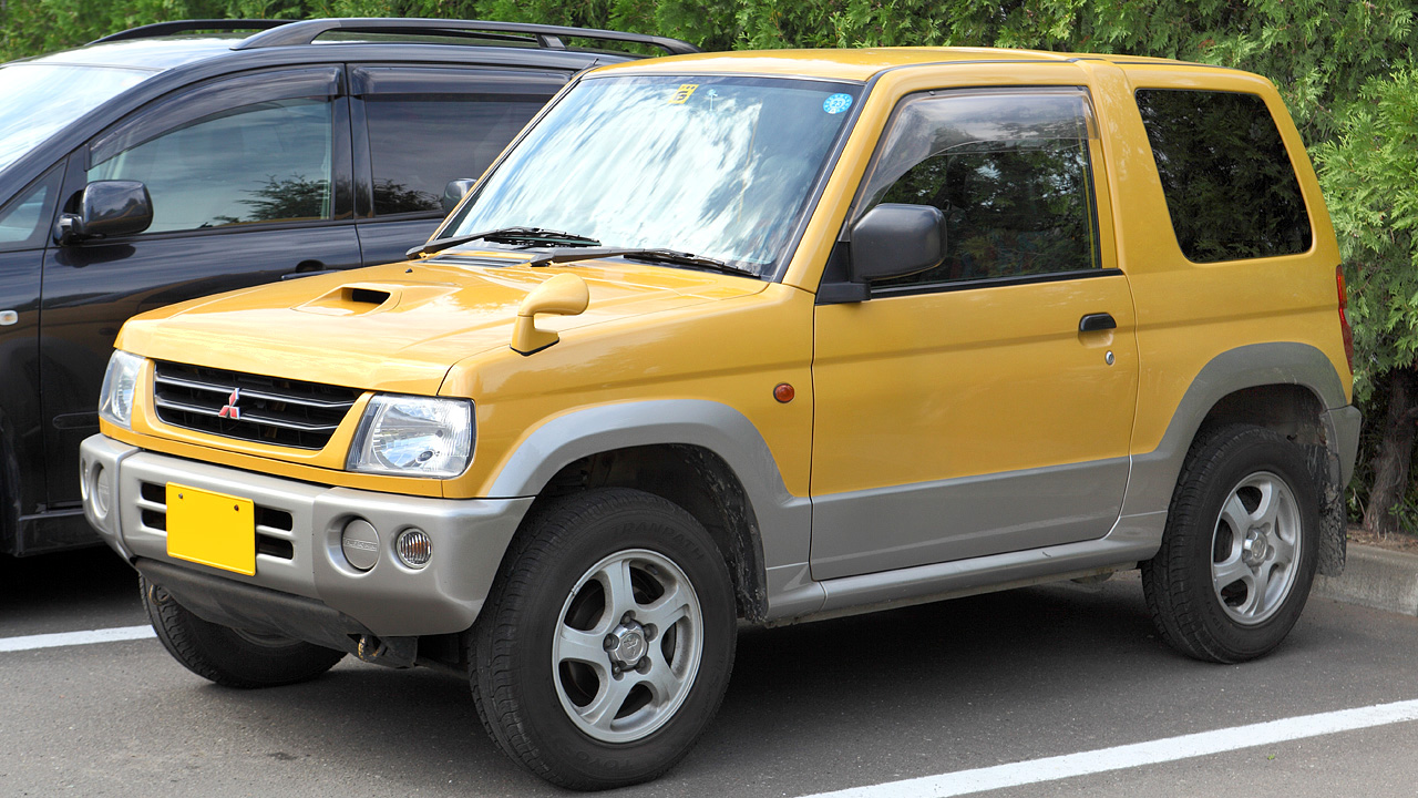 Second generation Mitsubishi Pajero Mini X